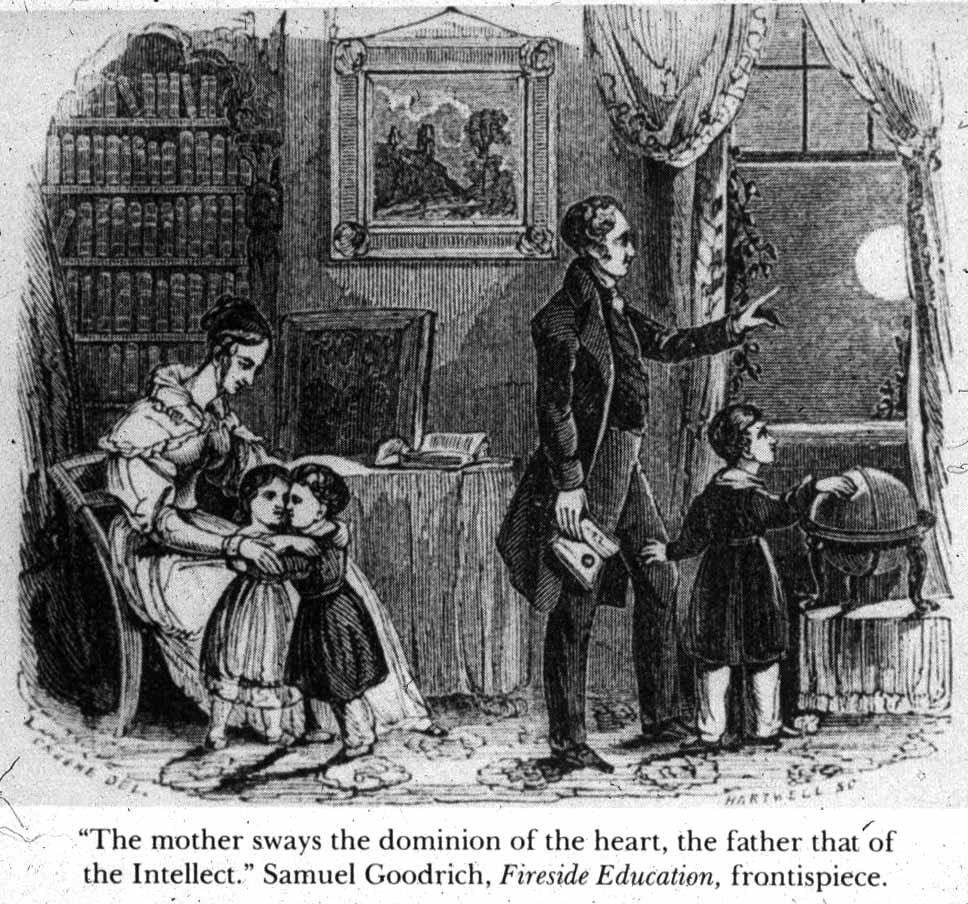 Public Domain